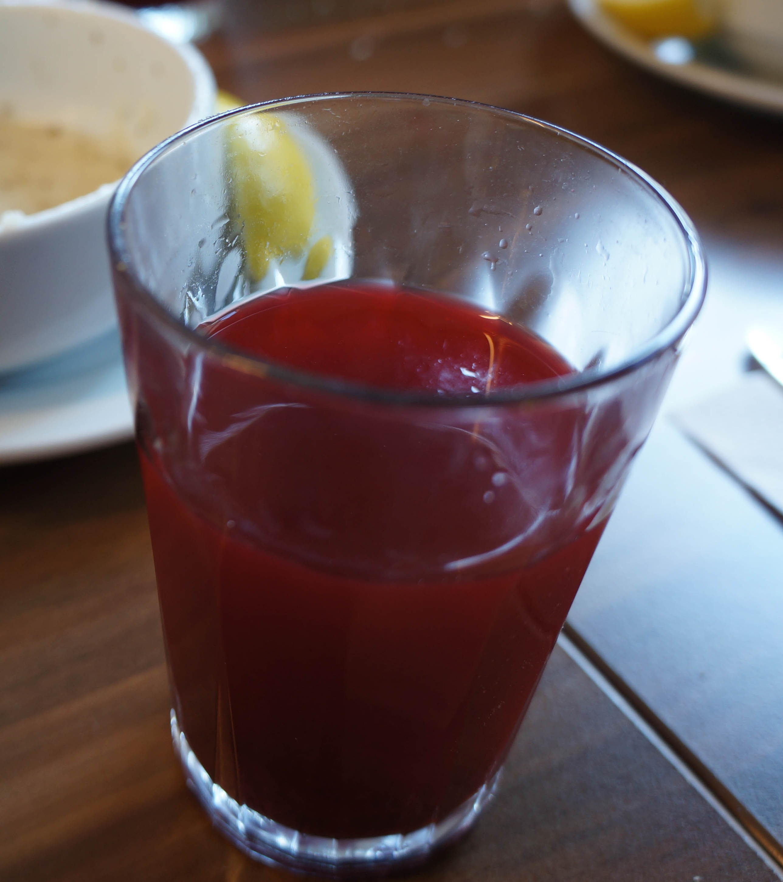 Şıra, a fermented grape drink (not wine)